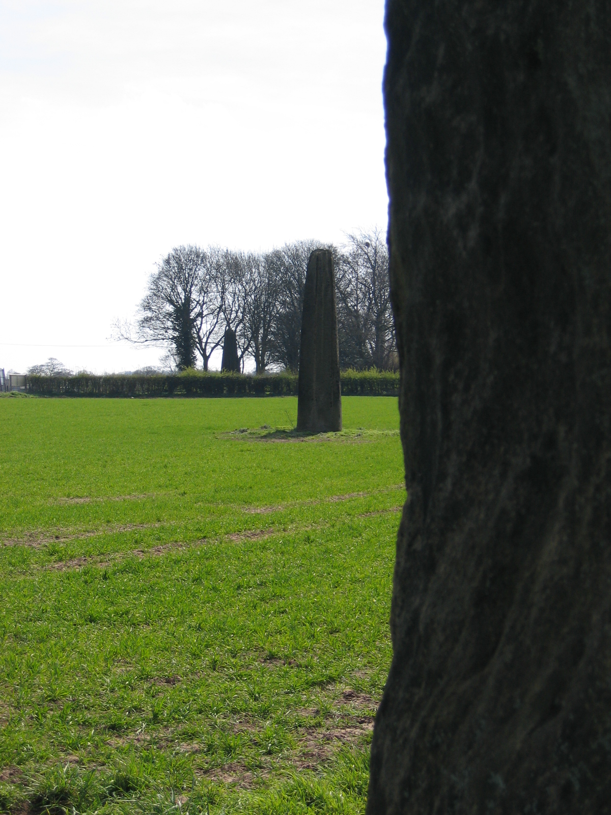 Devil's Arrows, near Boroughbridge, North Yorkshire, England.